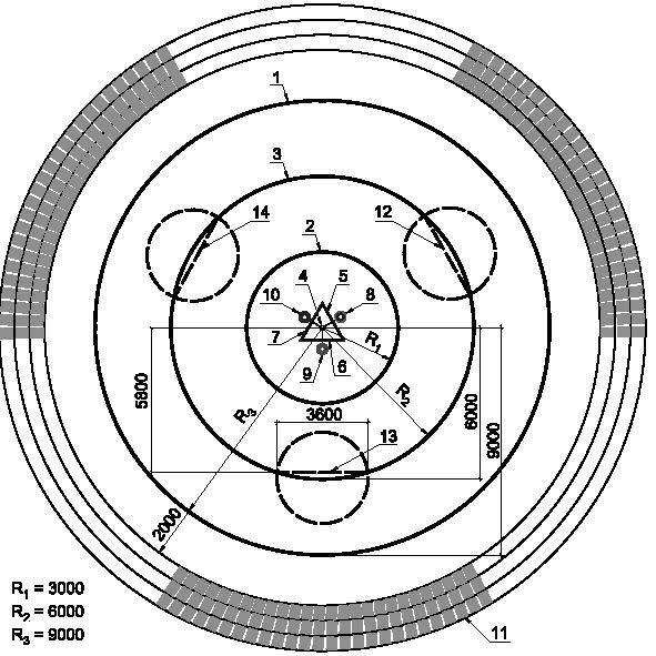 Piterbasket court